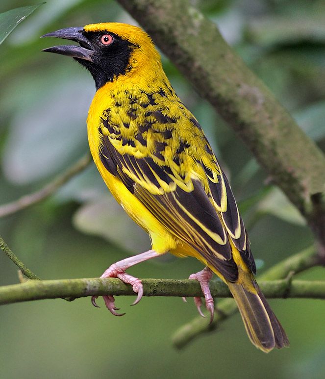 Village Weaver, male. Southern race.